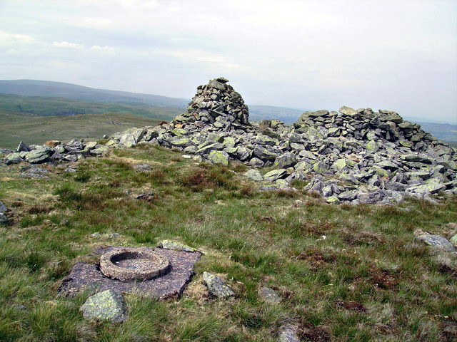 Cairn,Seat Robert. Substantial pile of stones probably of ancient origin. A more recent addition is the O.S. Trig ring embedded in the turf. There is another such ring rather than a column of the nearby Branstree.